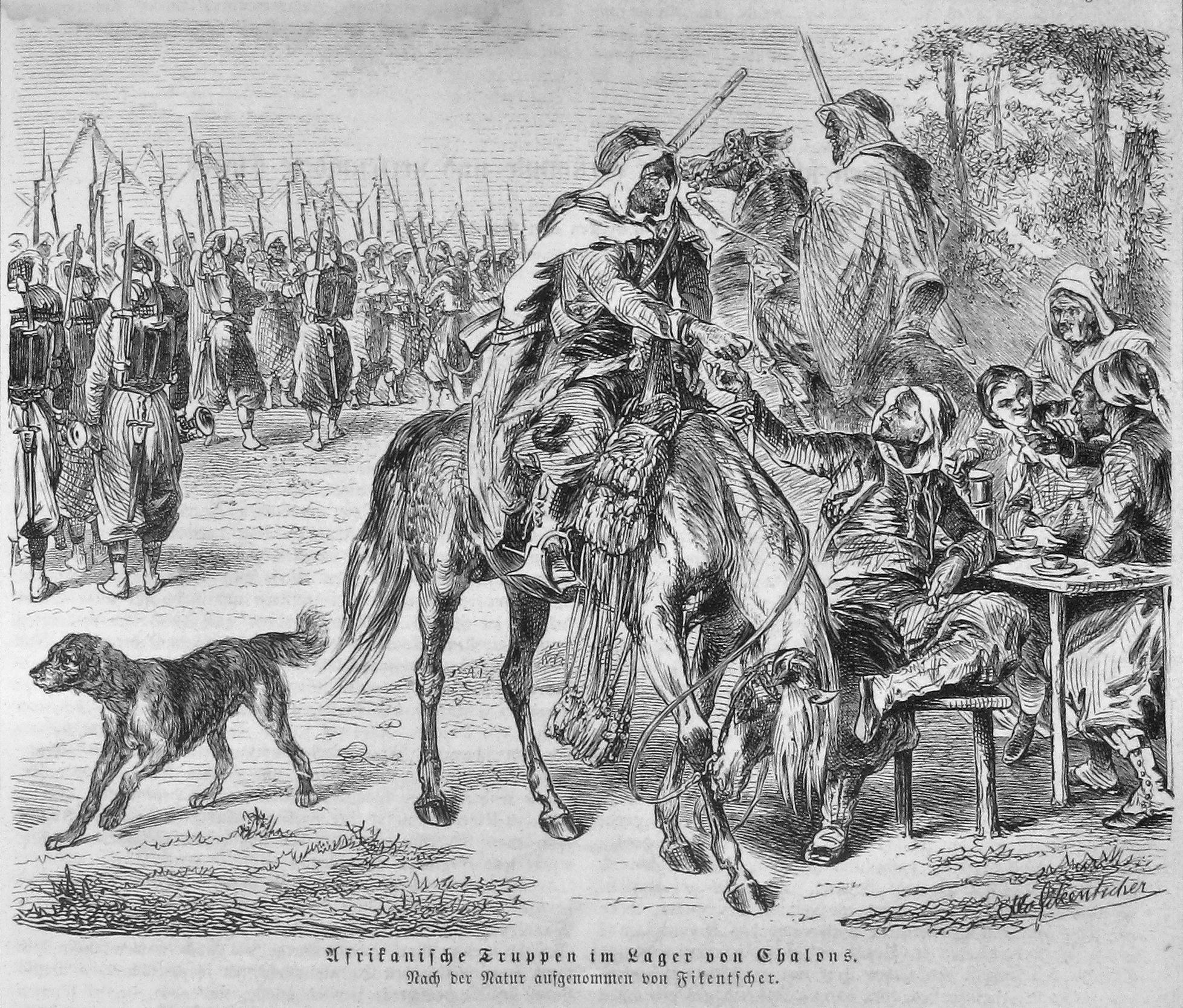 caption: "Afrikanische Truppen im Lager von Chalons. Nach der Natur aufgenommen von Fikentscher."